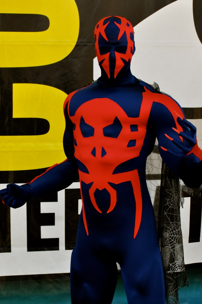 Spider-Man 2099, Comic Con 2010